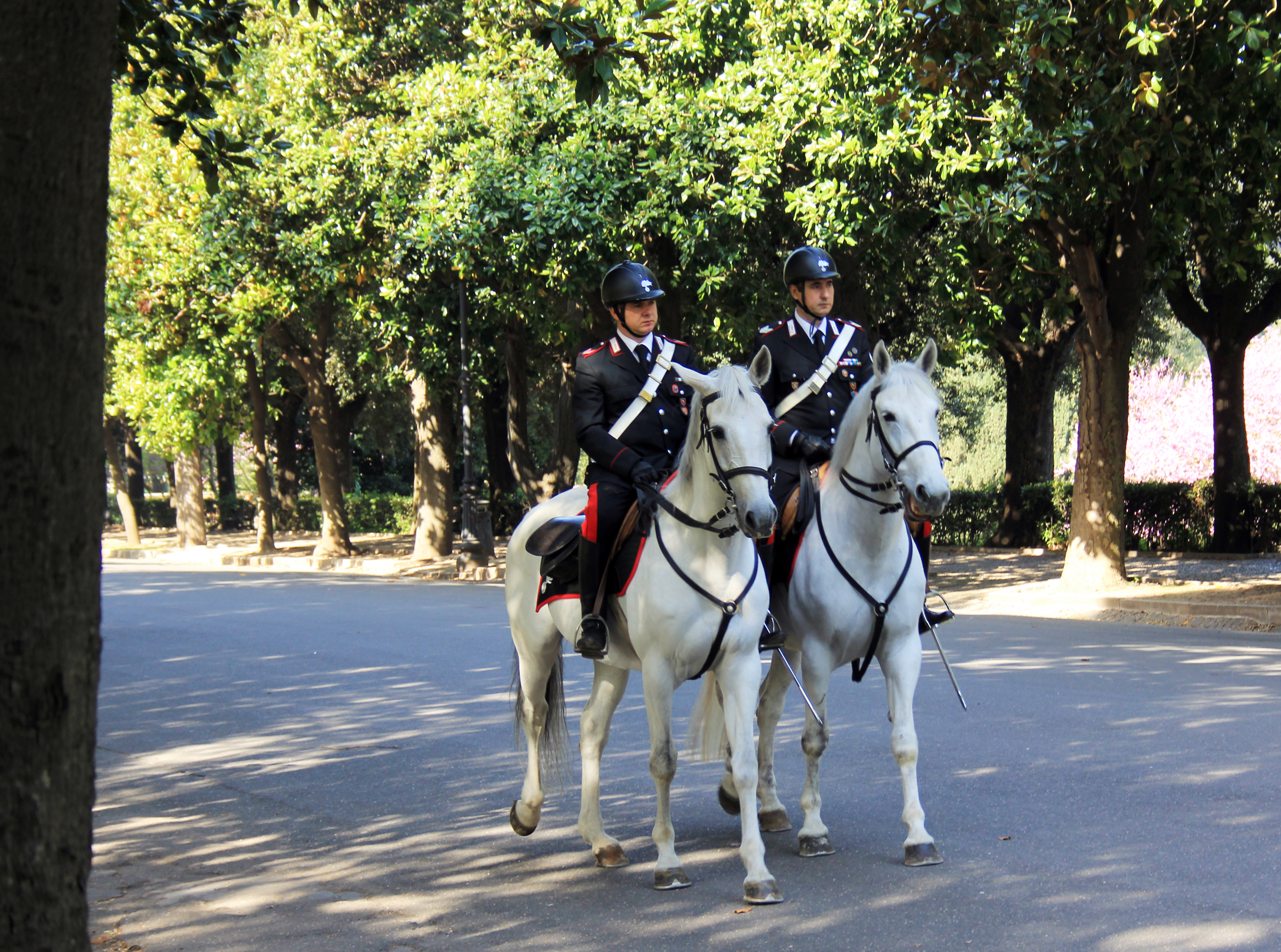 Mounted Carabinieri in Villa Borhgese gardens, Rome, Italy